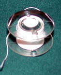 photo of bobbin taken by Dvortygirl at home